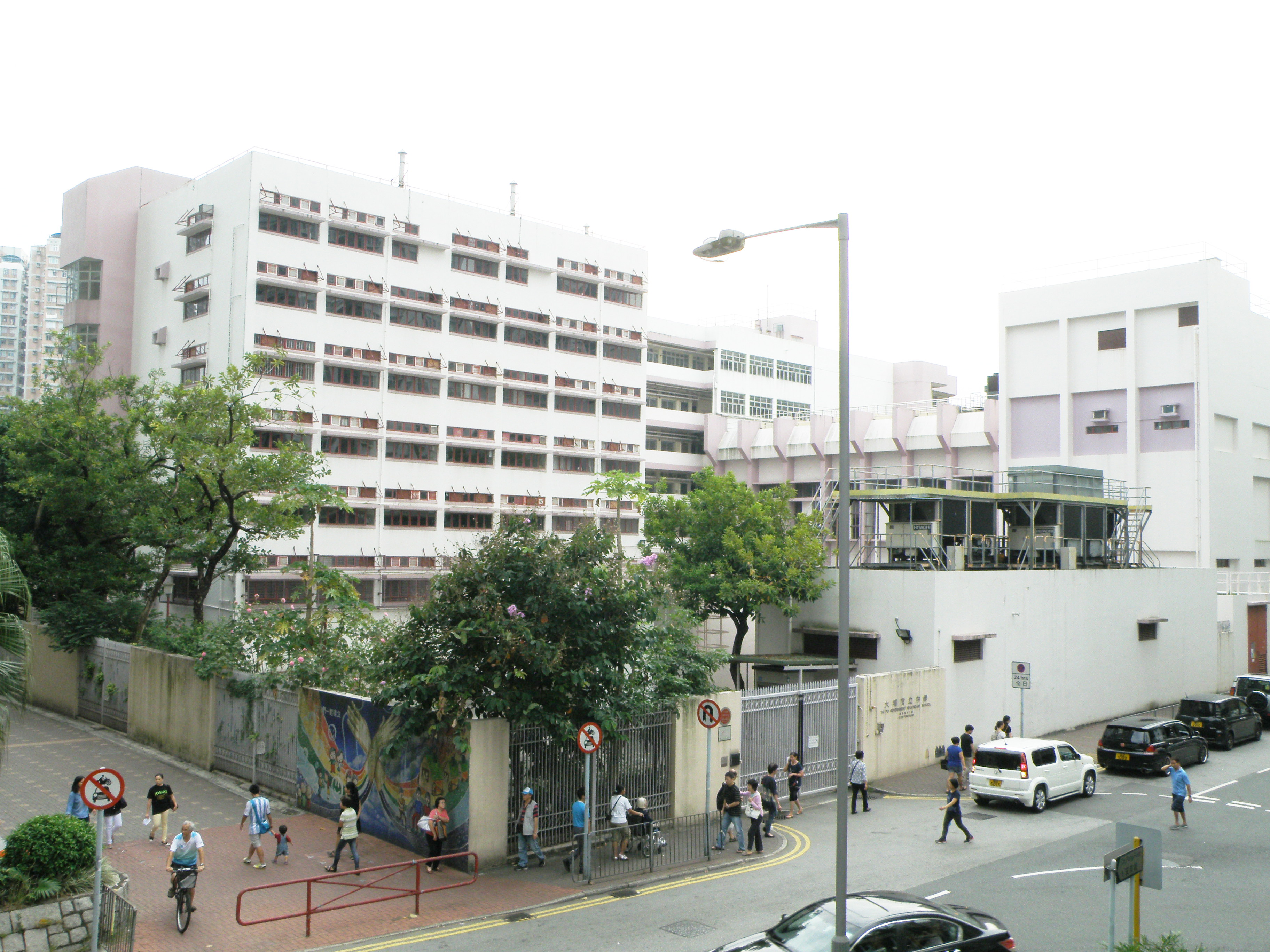 Former government secondary school in Tai Po, Hong Kong.